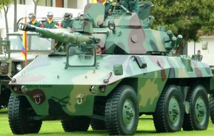 Darkened version of a previous Commons image. Cascavel armoured car, Colombian Army. Cleaned up, cropped and darkened for an article on the preceding conflict. Limited contextual relevance to original work.